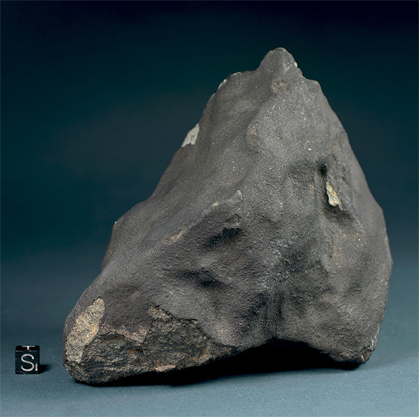 A 2 kg stone meteorite which fell near Tamdakht, Morocco on December 20, 2008